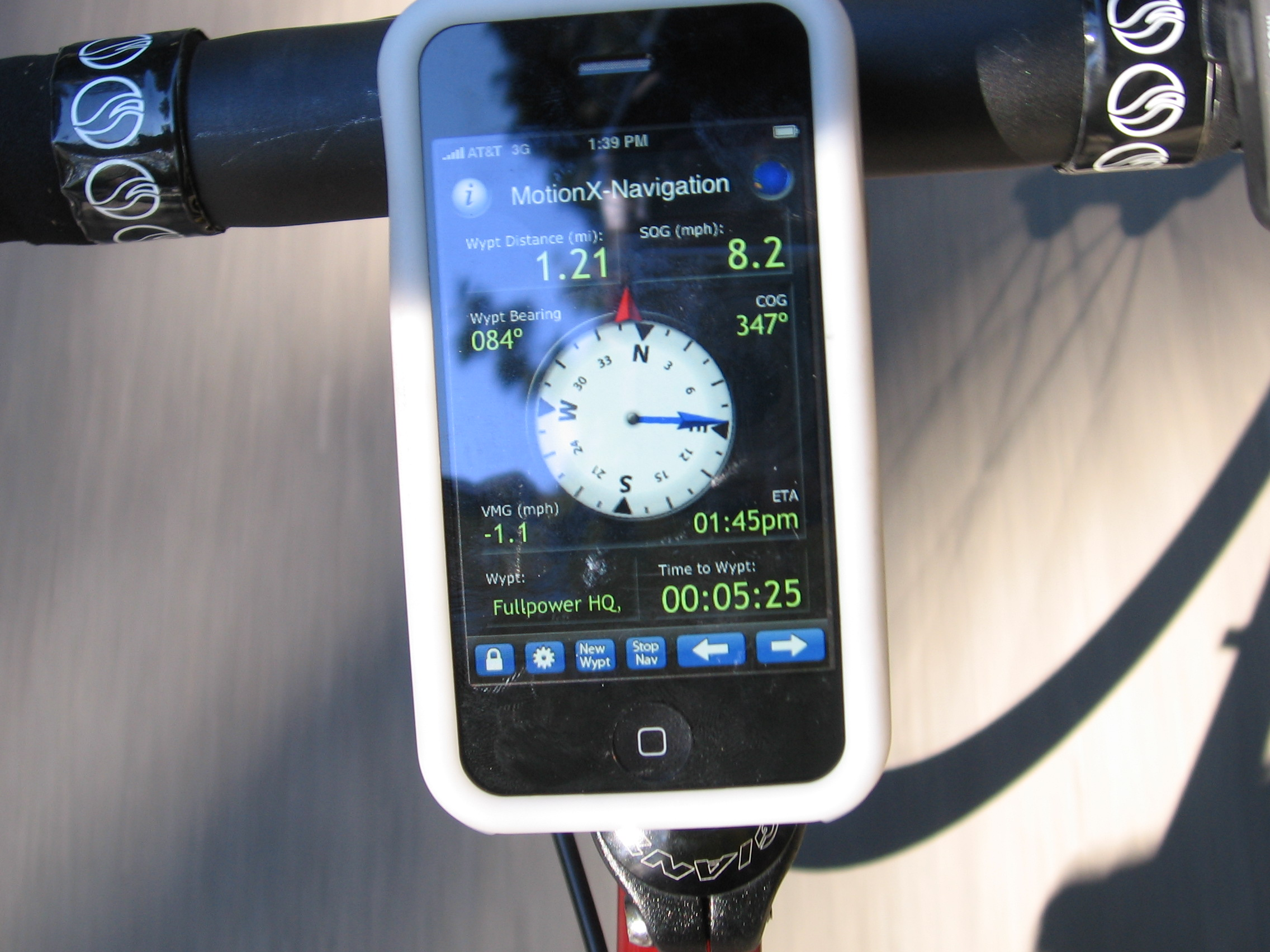 GPS navigation solution running on a smartphone (iphone) mounted to a road bike. GPS is gaining wide usage with the integration of GPS sensors in many mobile phones.